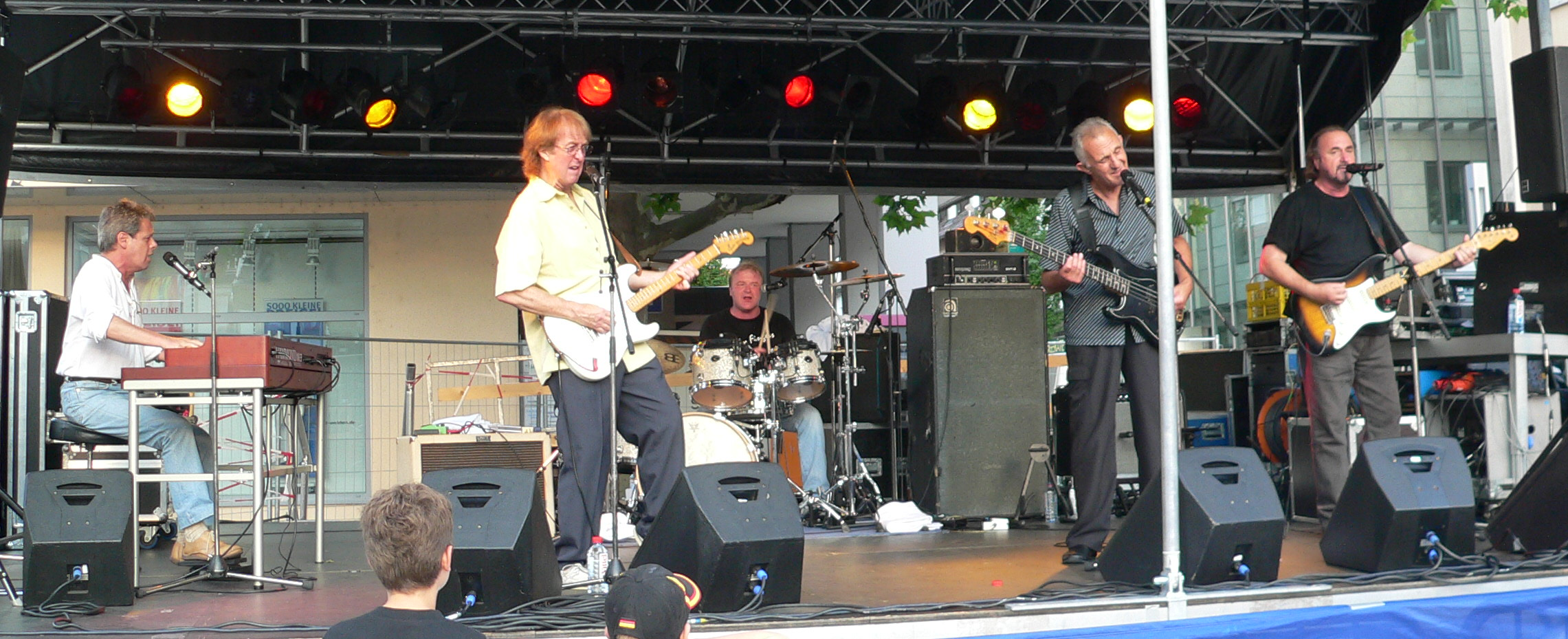 The Spencer Davis Group at a concert on 8. July 2006 in Neckarsulm (Germany), from left: Eddie Hardin, Spencer Davis, Steff Porzel, Colin Hodgkinson, Miller Anderson